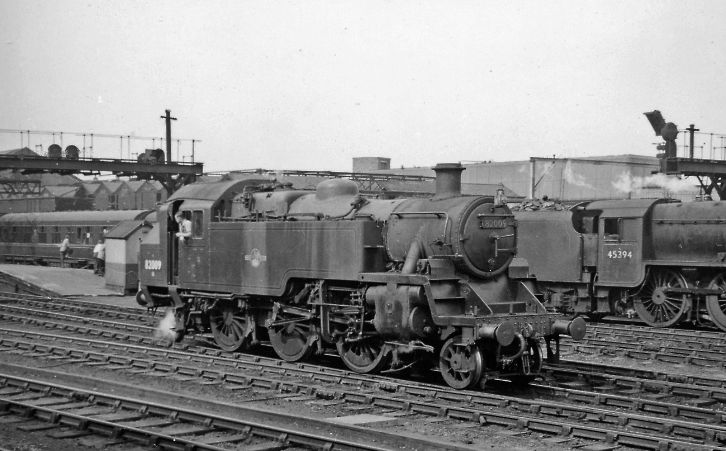 Crewe Station, south end, with BR Standard 2-6-2T. View NE from No.3 Down platform. BR Standard 3MT 2-6-2T No. 82009 (built 6/52, withdrawn 10/66) is running light after working a local from Wellington; behind it is a Stanier 5MT 4-6-0 on the 10.50 Workington - Euston.